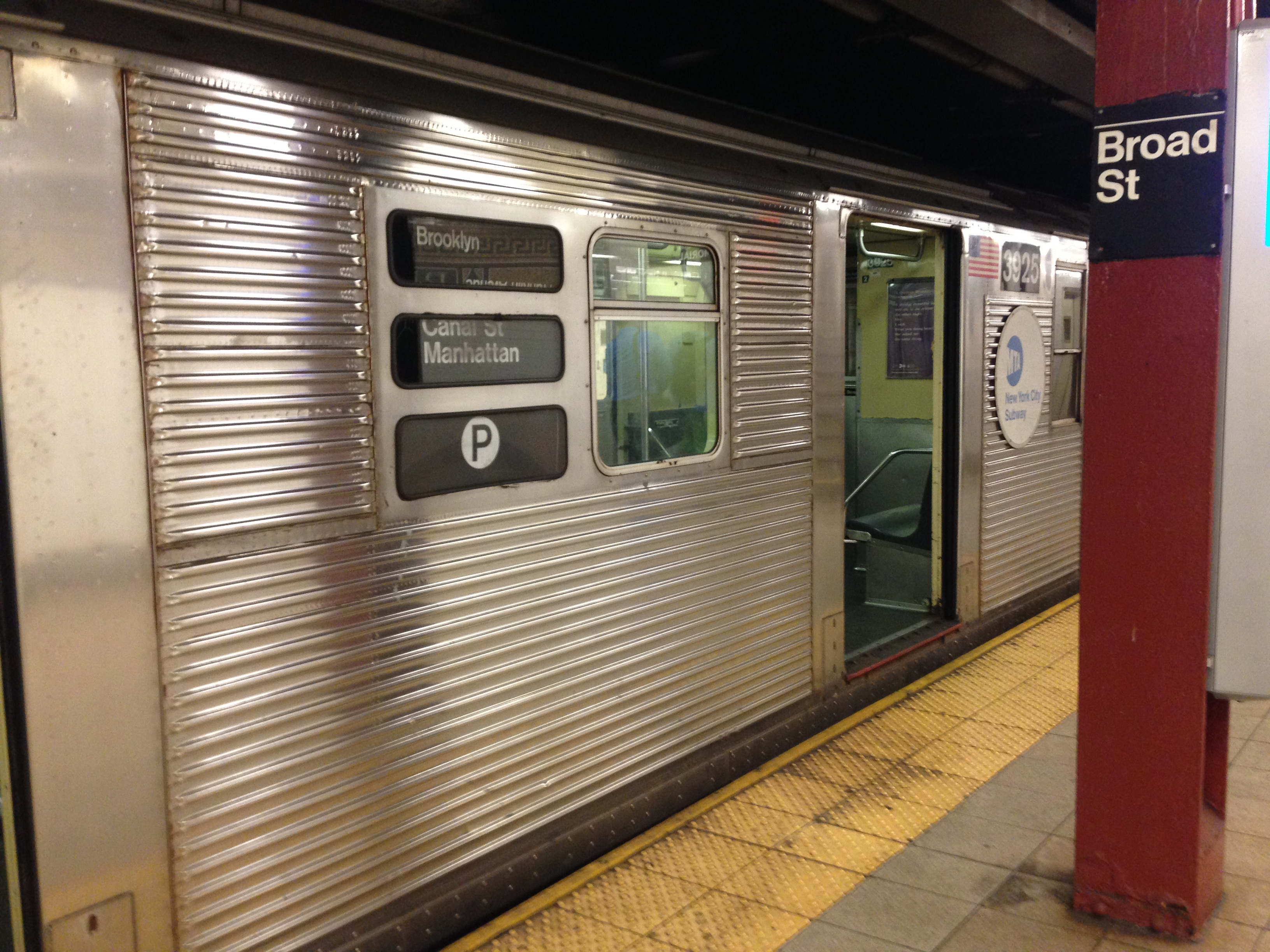 An R32 J train showing an erroneous P sign.